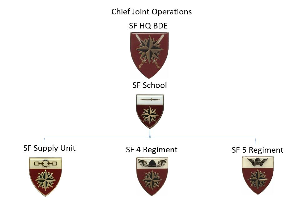 SANDF Special Forces Organigram